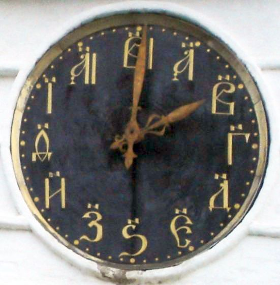 Clock face of the tower clock in Suzdal.